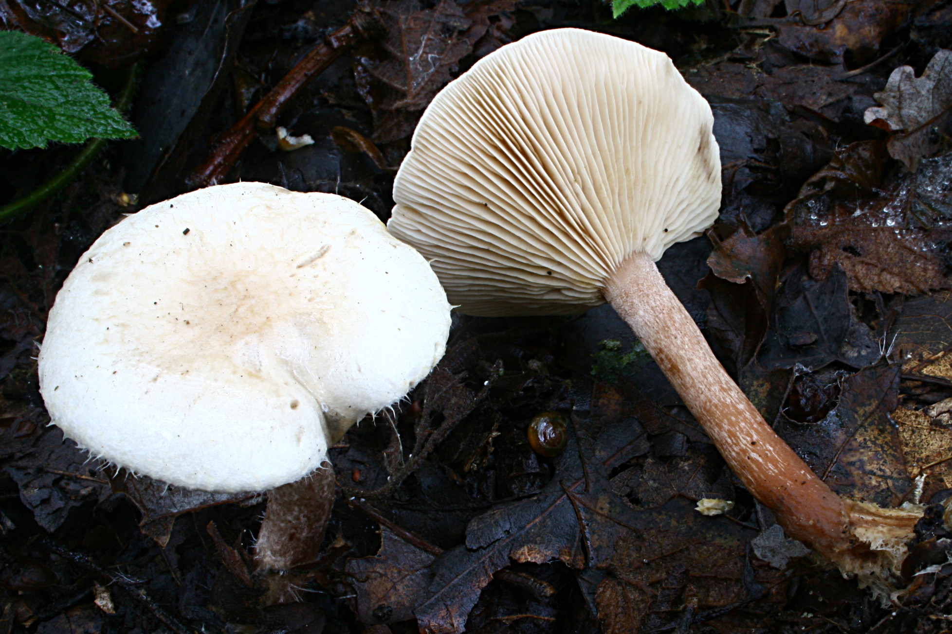 Ripartites tricholoma in a wood near Les Ulis, France.